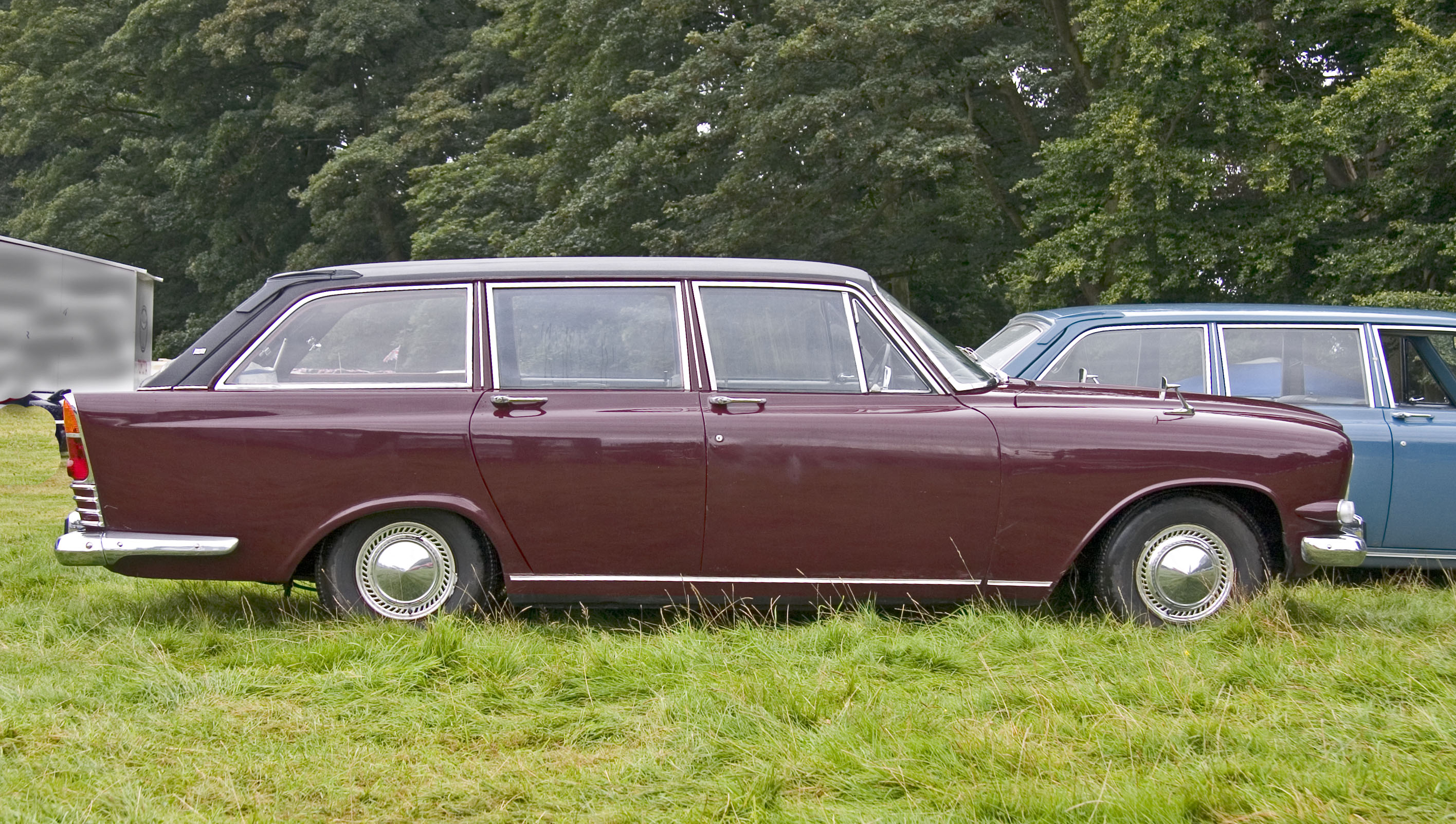 Ford Zephyr 6 (213E) Abbott Estate. The Zodiac MkIII doors are evident on this Zephyr 6 Estate, and Zodiac bodyshells were in fact used on these Abbott Estates